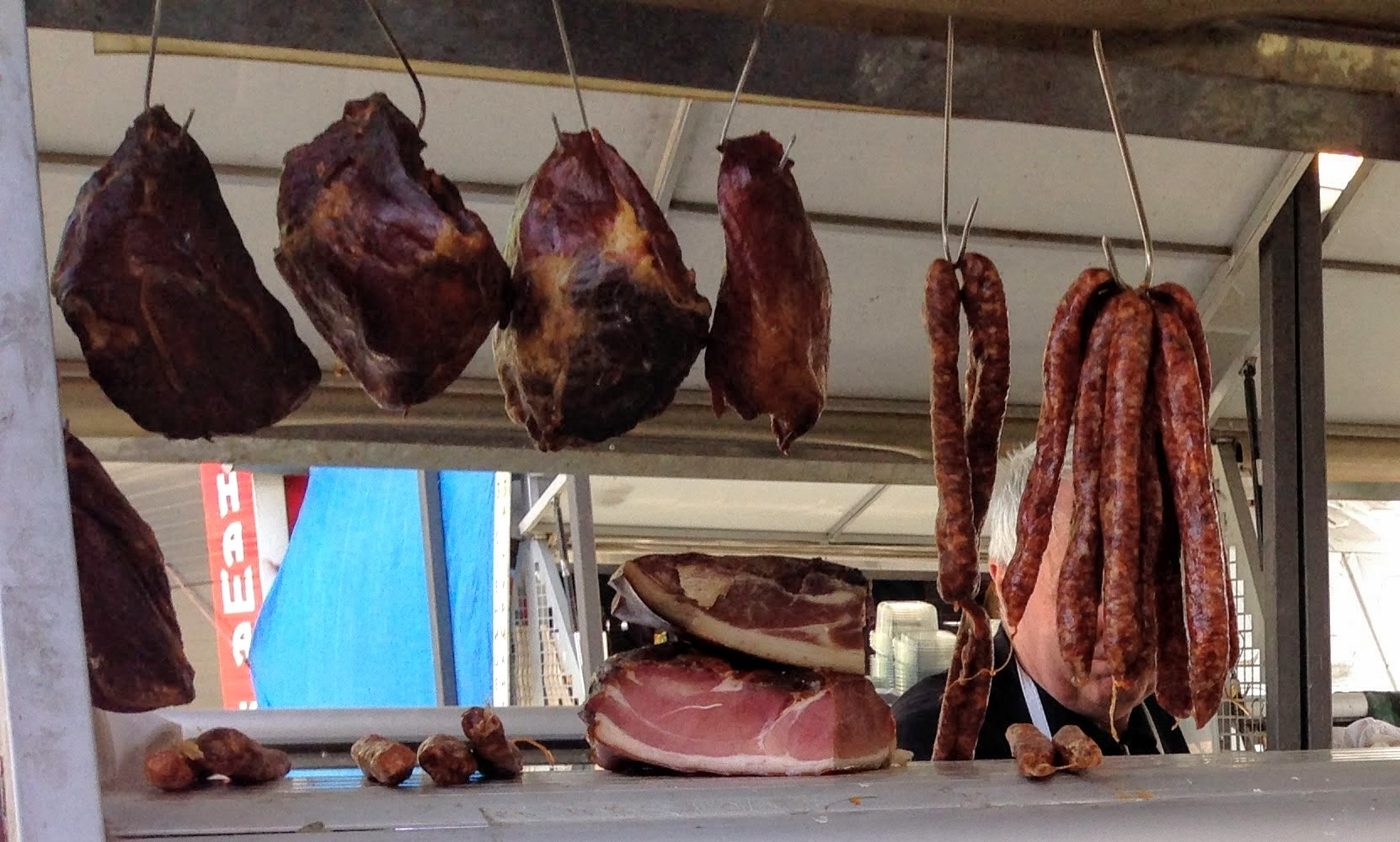 Prosciutto di Uzice area